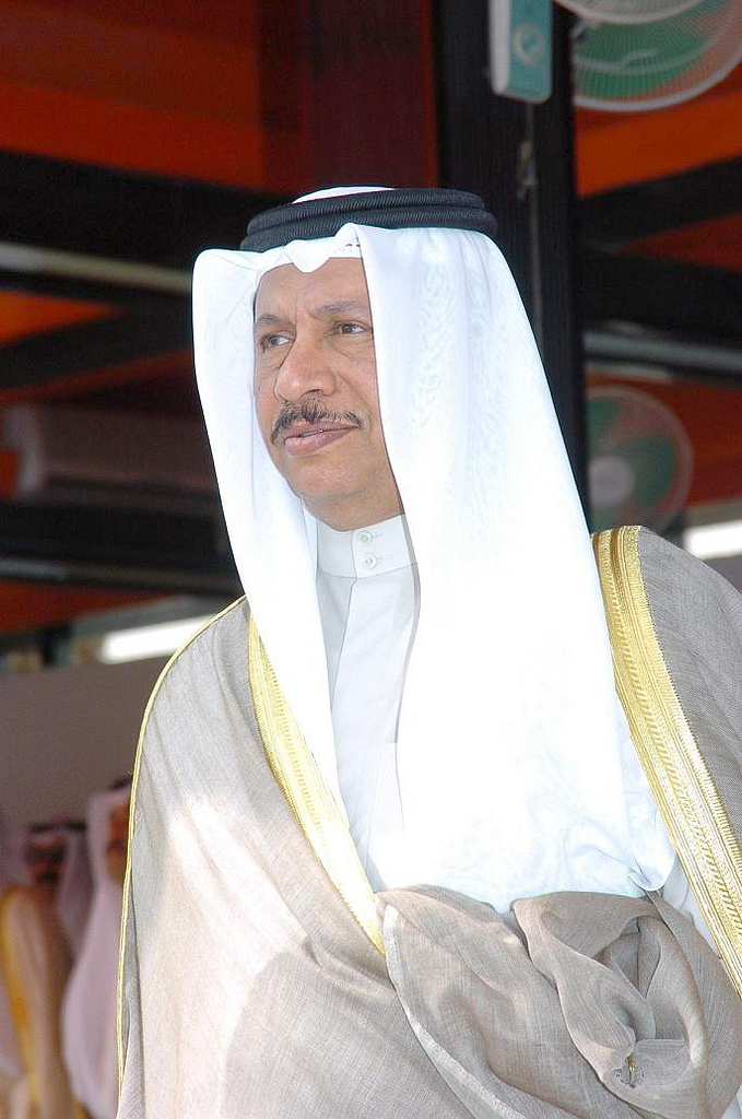 Kuwait’s First Deputy Prime Minister and Minister of Defence Sheikh Jaber Al-Mubarak Al-Hamad Al-Sabah. Photo courtesy of the Kuwaiti Ministry of Defence